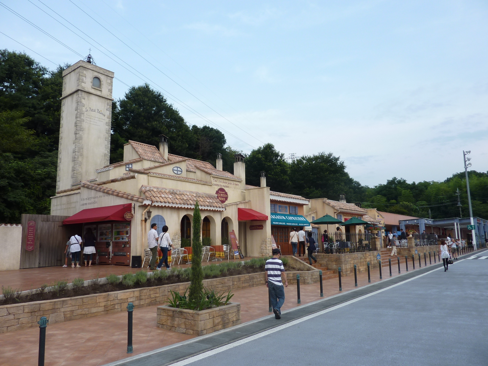 Yorii Parking Area on the Kan-etsu Expressway southbound line